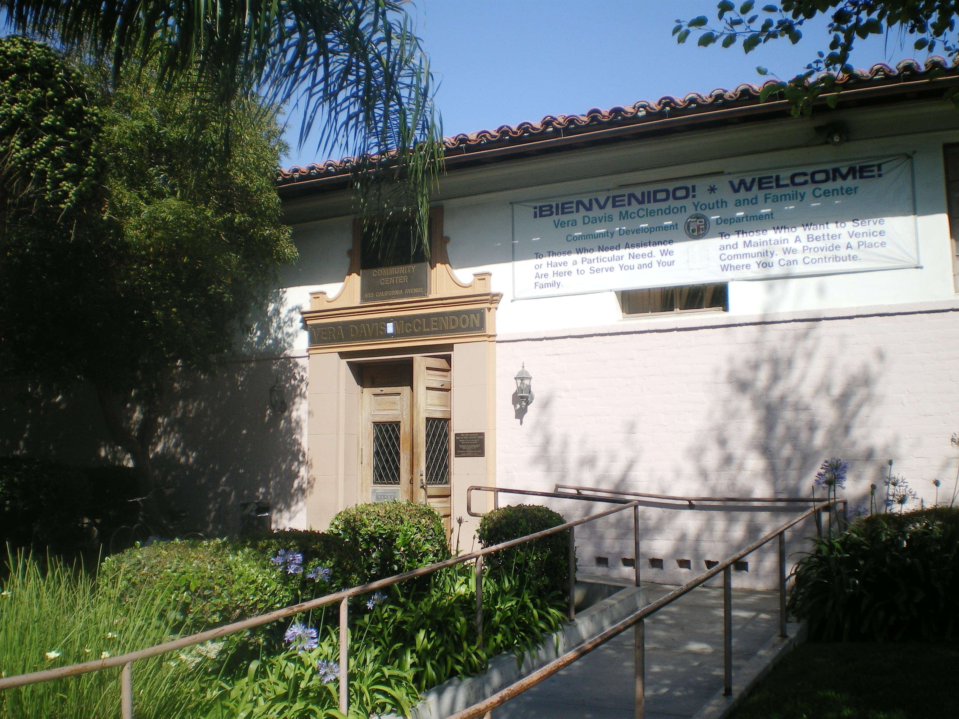 The Venice Branch Library (former); present day Vera Davis McClendon Youth and Family Center, 610 California Ave., Venice, California. On the National Register of Historic Places.